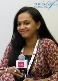 Anuja Chandramouli (Indian author of fantasy and historical fiction) in Times Lit Fest: Women in mythology Redefining desire